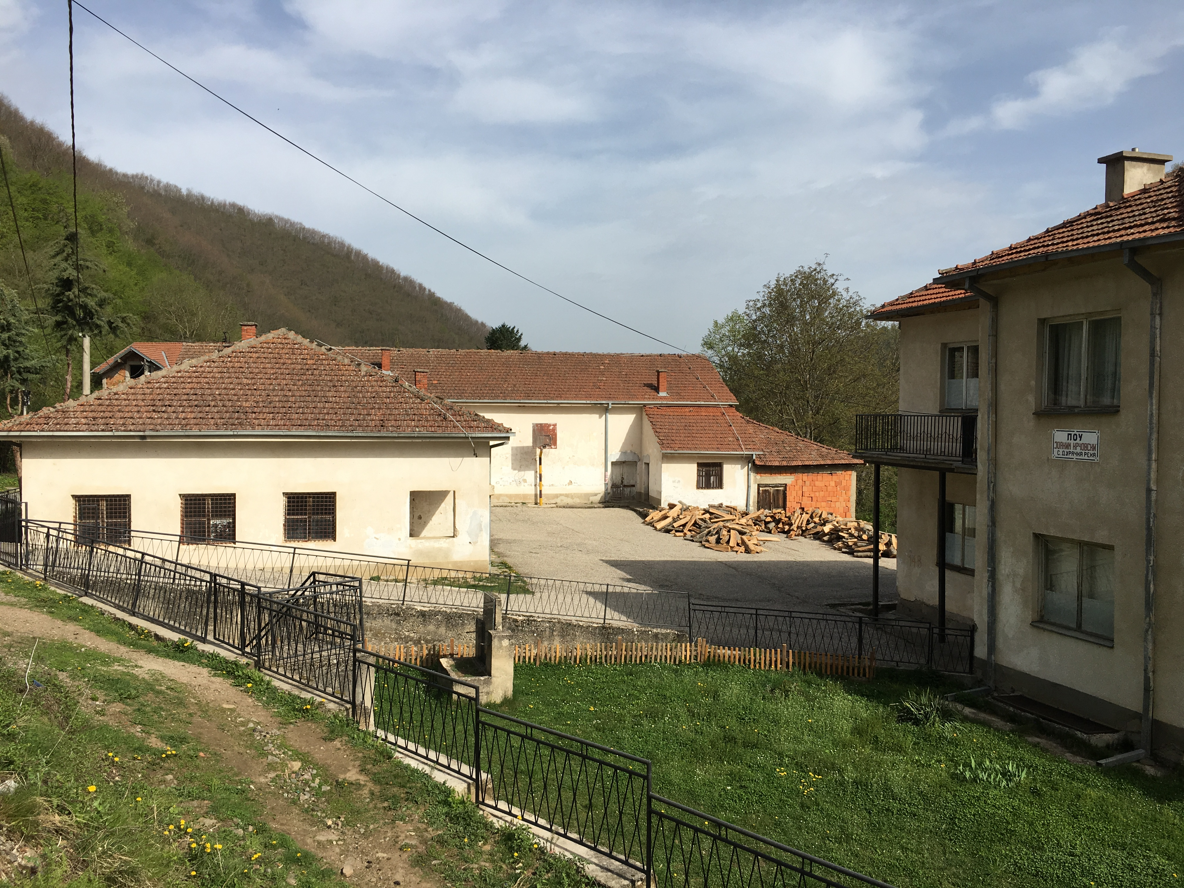 The primary school in the village of Duračka Reka